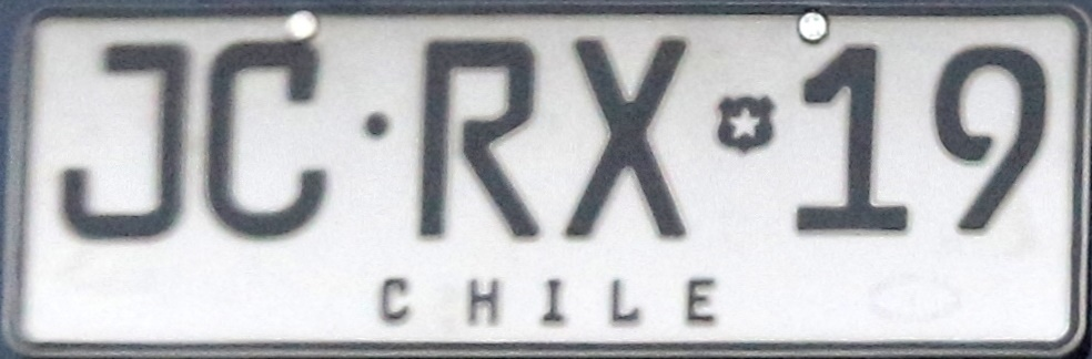 Chilean registration plate in format 3: particular with new font